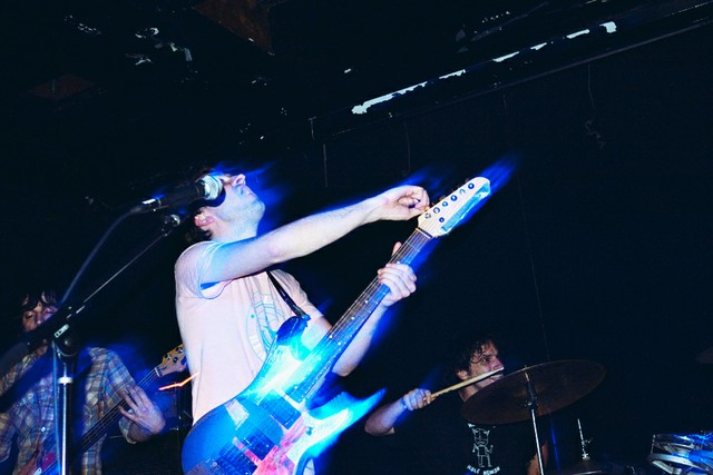 hooray for earth performing live in brooklyn NY